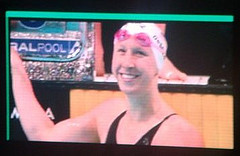 Mary DeScenza at the end of the pool after setting new American Record in 200 meter Butterfly.